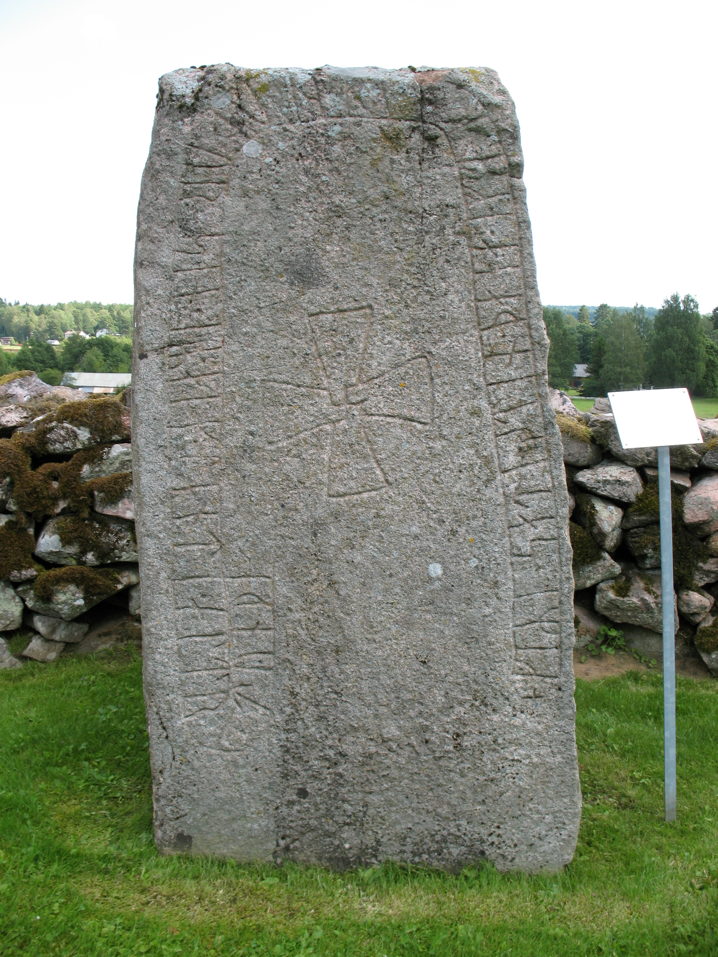 runestone Vg 187 in Vist, Ulricehamn, Sweden.